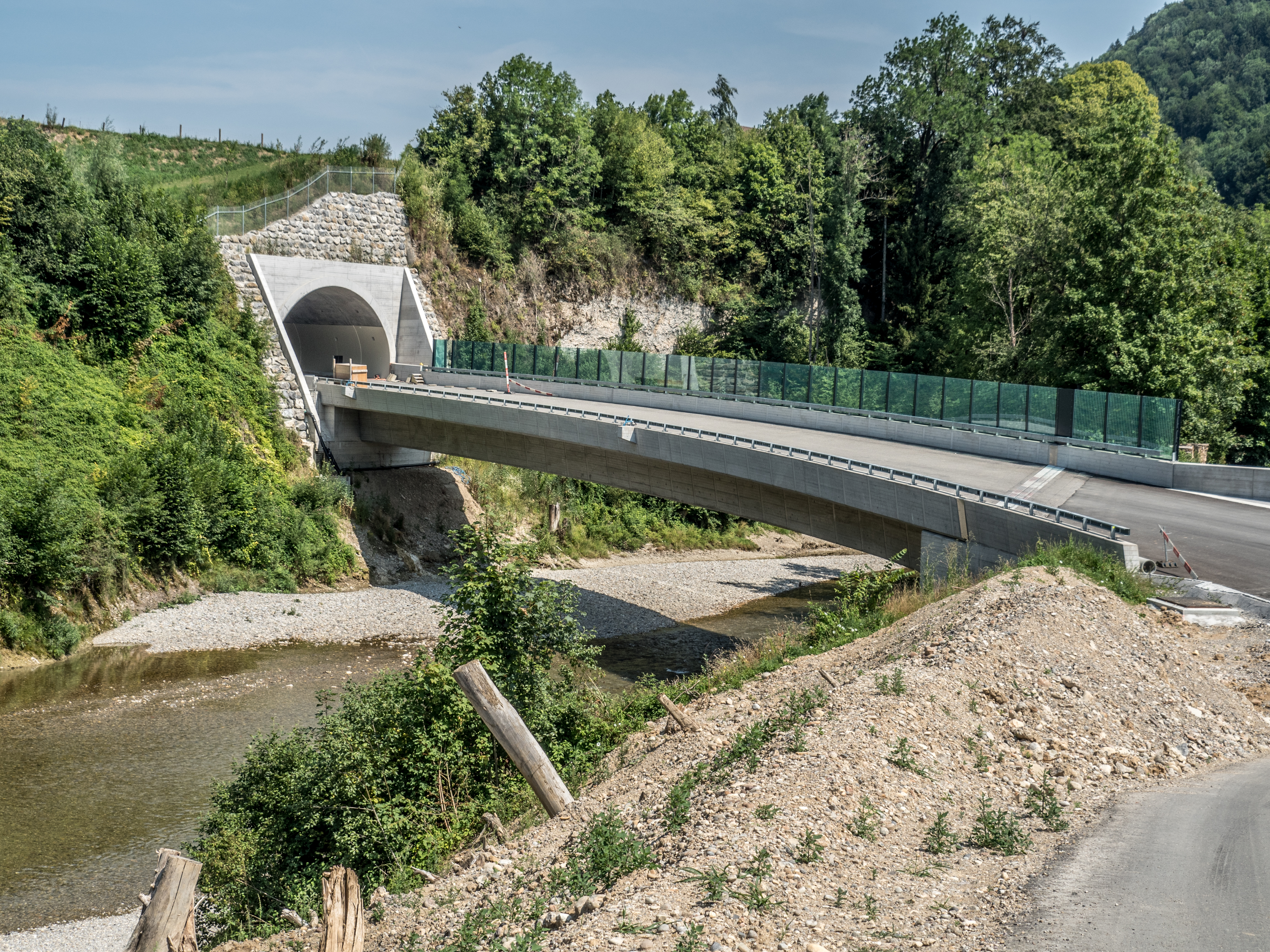 Umfahrung Brütschwil Bridge at Michelau (under construction) over the Thur River, Bütschwil-Ganterschwil, Canton of St. Gallen, Switzerland